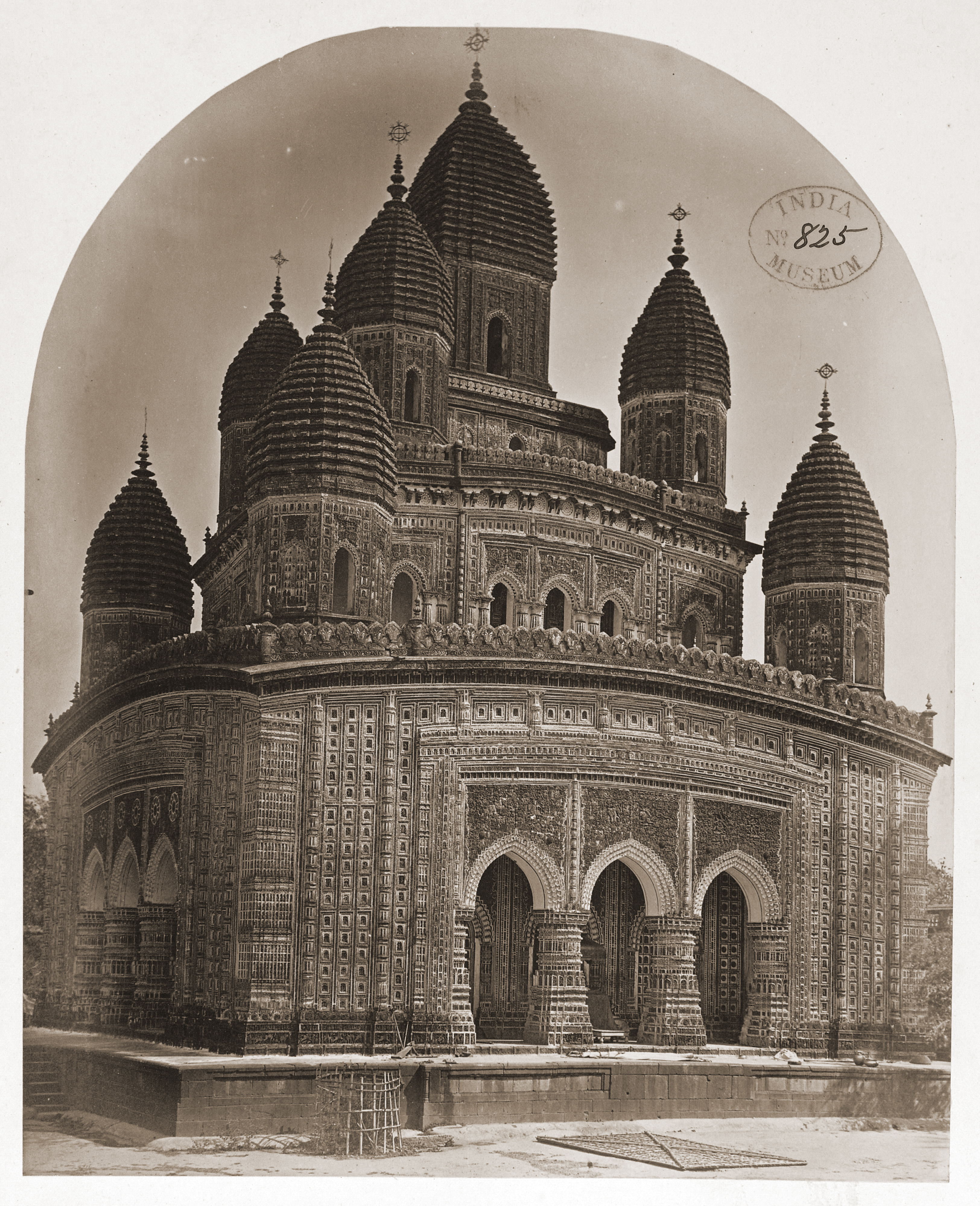 Photograph of Kantaji temple before being damaged by an earthquake